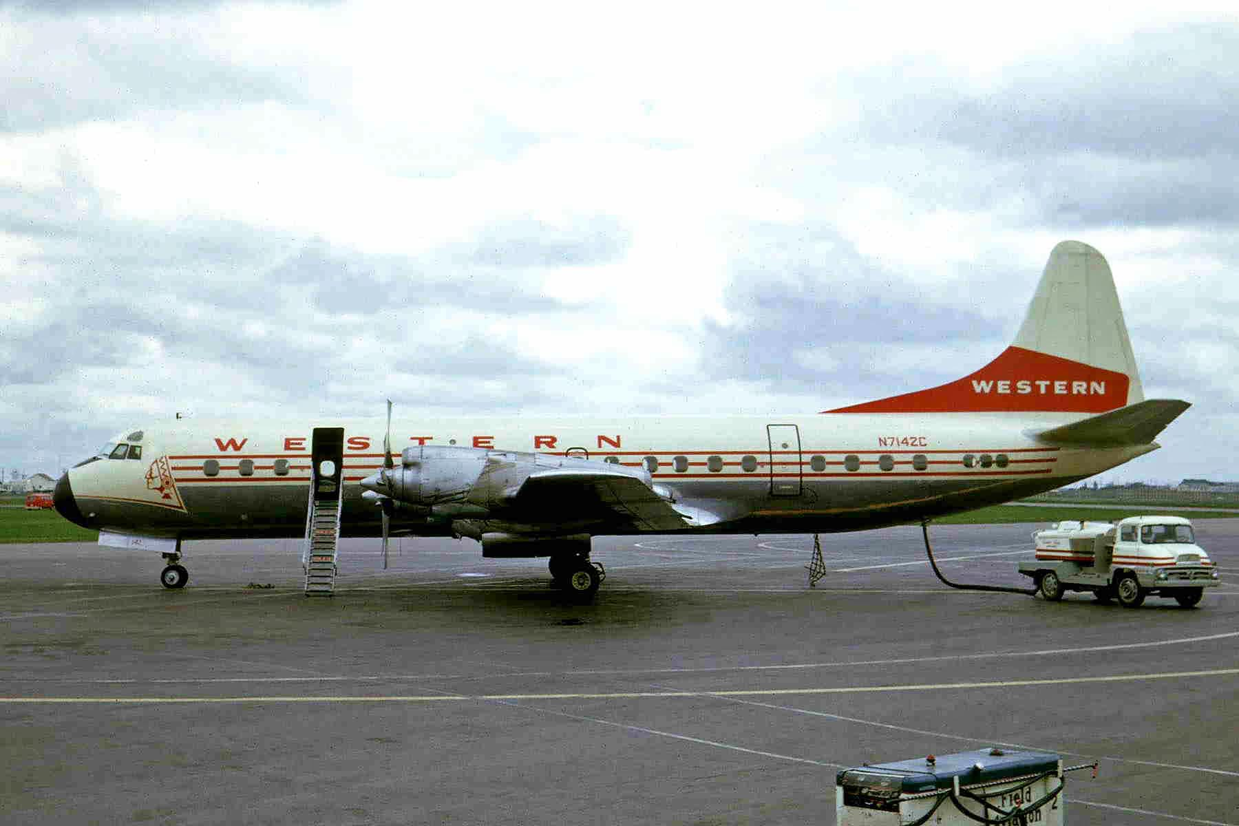 A picture of an airplane